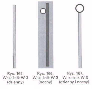 Polish railway sign W 3